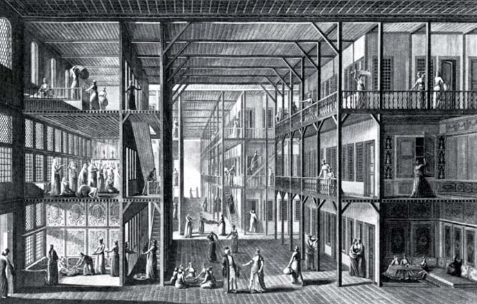 The Harem as imagined by foreign artist, The Dormitory of the concubines, by Ignace Melling.